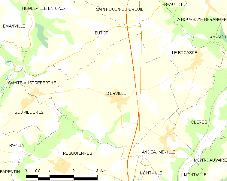 Map of French municipality Sierville